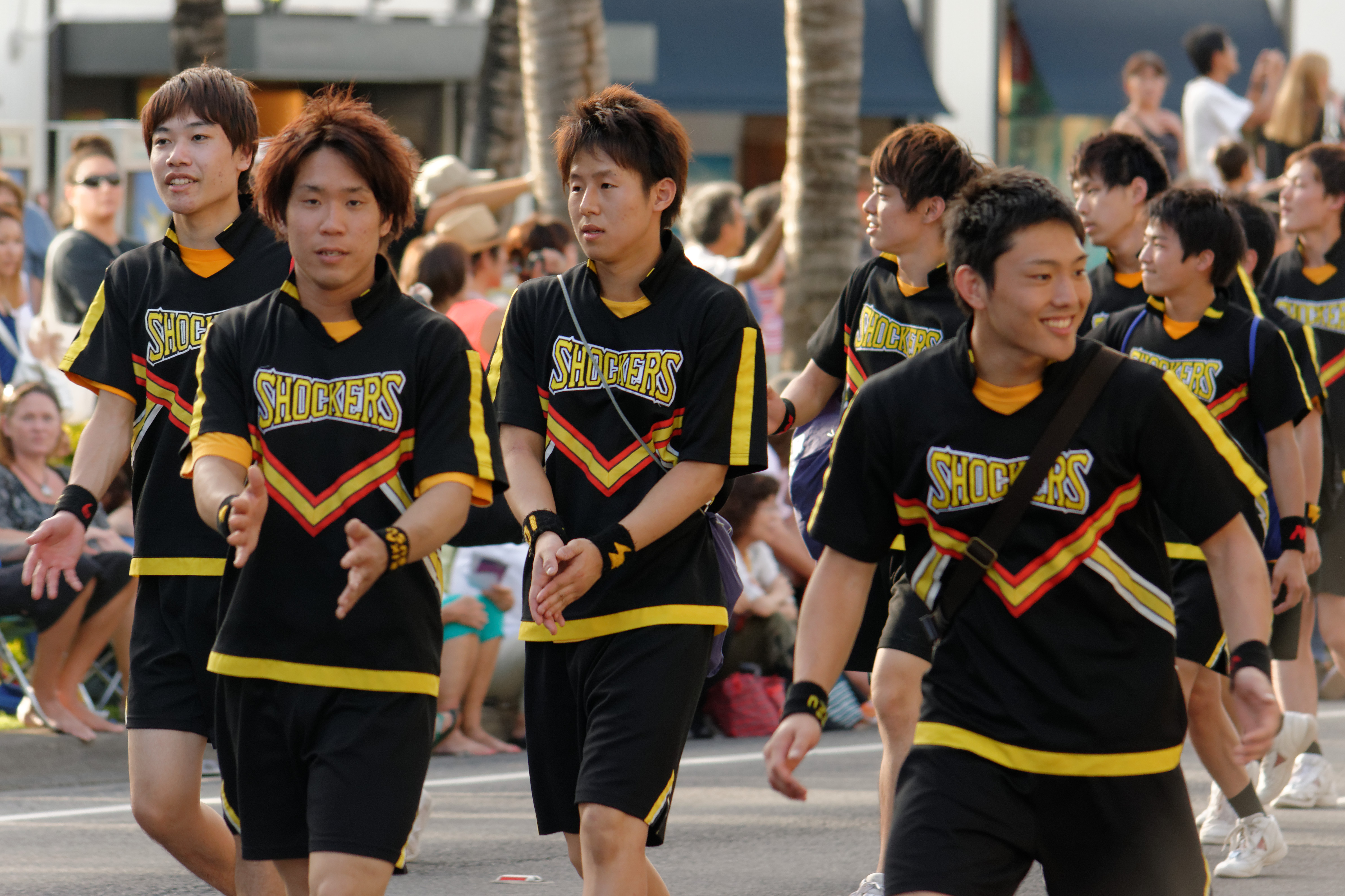 Honolulu Festival 2014 - Waseda University All Boys Cheerleading Team "Shockers"